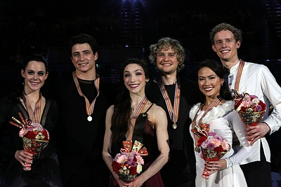 The ice dancing podium at the 2013 Four Continents. From left: Tessa Virtue / Scott Moir (2nd), Meryl Davis / Charlie White(1st), Madison Chock / Evan Bates(3rd).